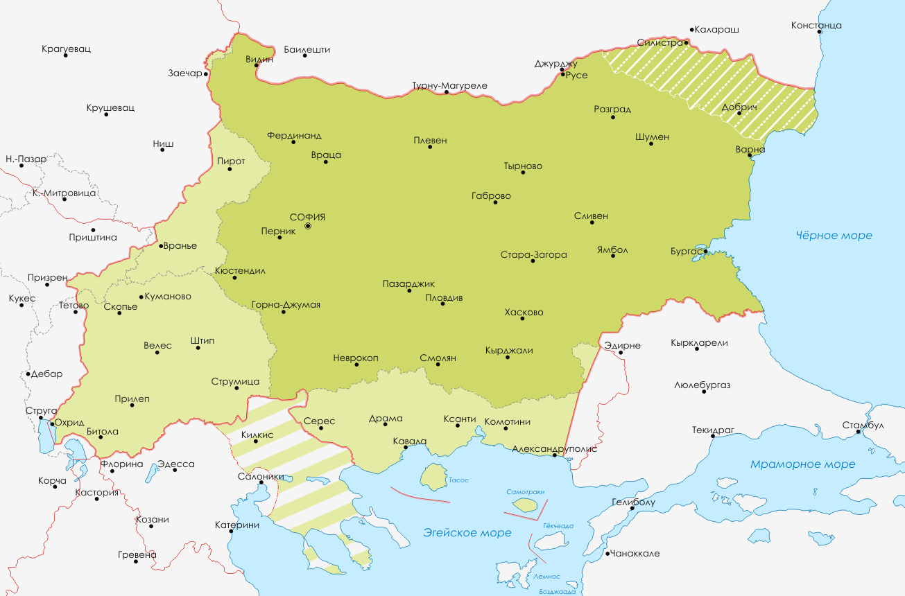 Map of Bulgaria during WWII